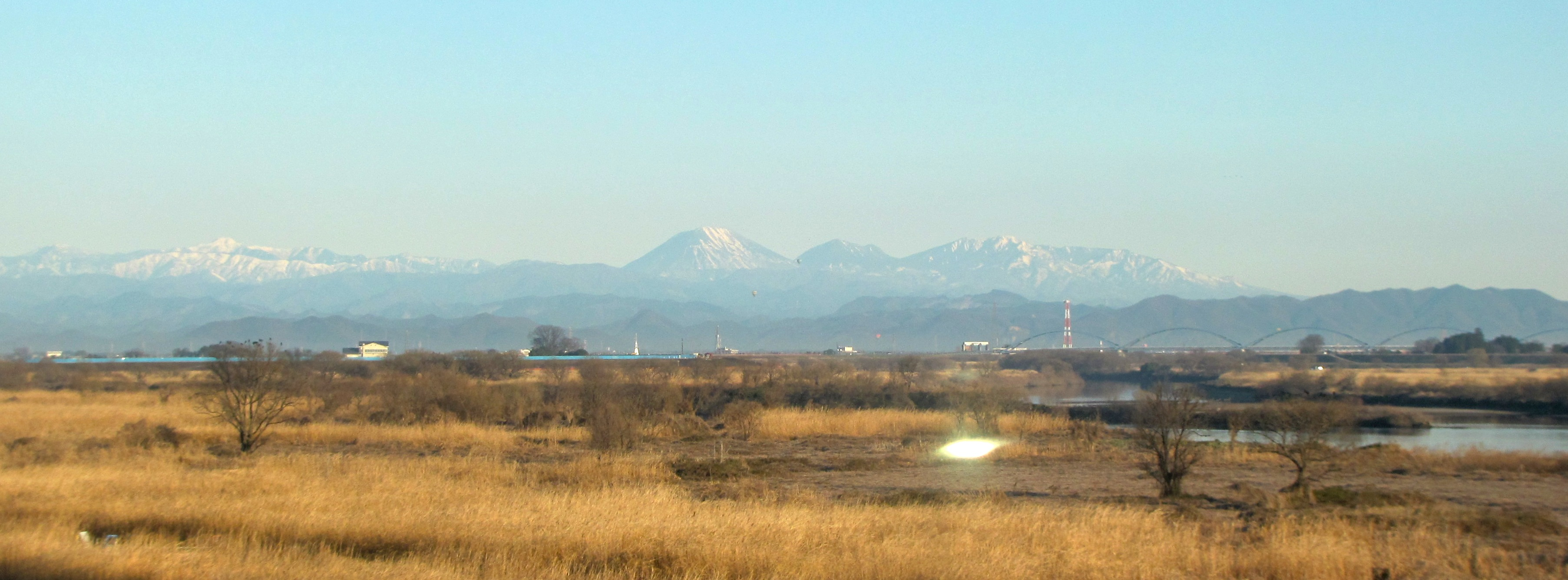 Japan: east view of Nikkō mountain range from the Utsunomiya bridge in the city of Koga (Ibaraki prefecture).